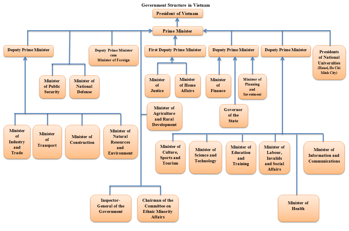 Government Structure in Vietnam